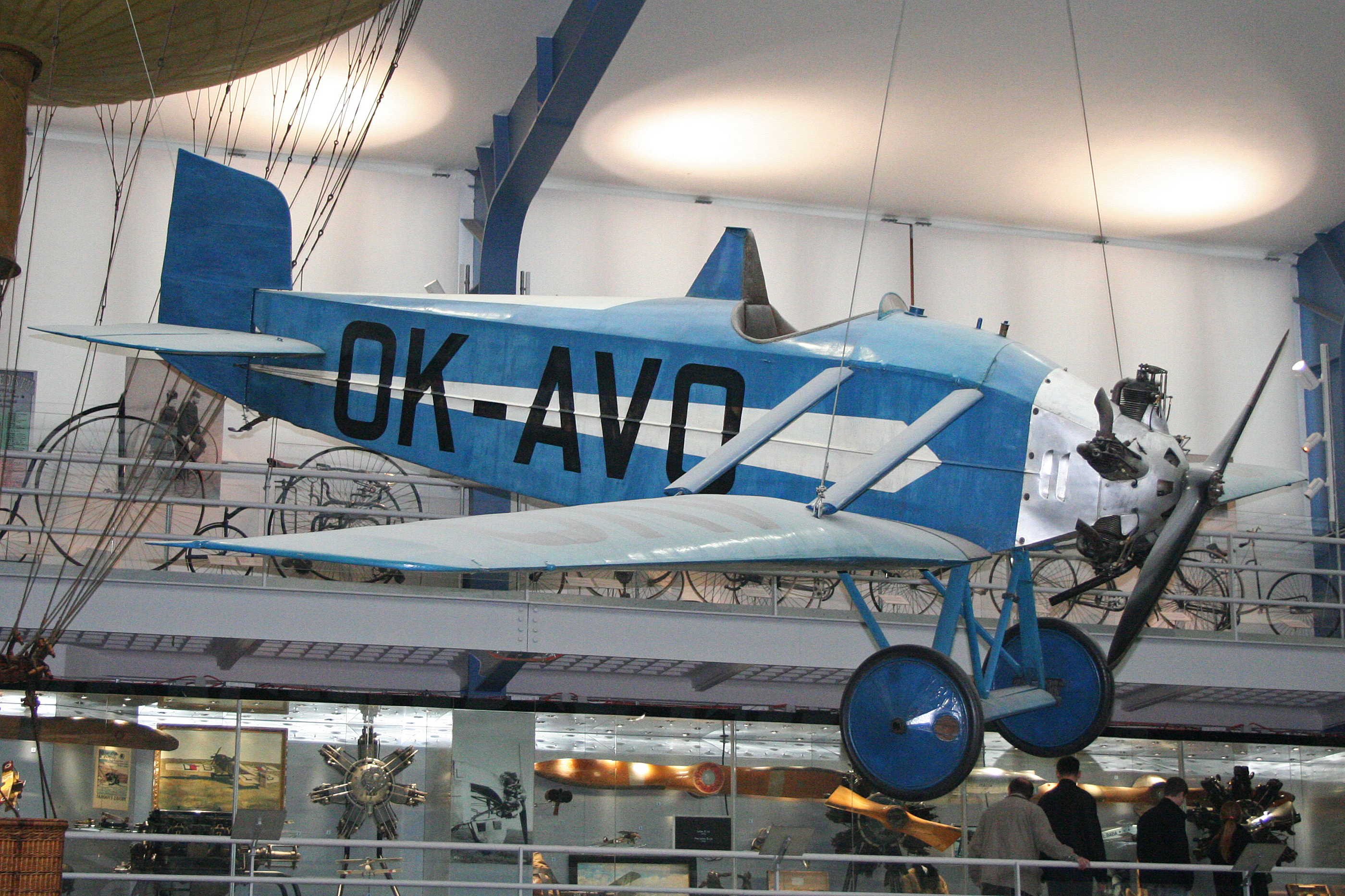 Built in 1924 as an aerobatic trainer for the Czechoslovakian Air Force, before passing to local aero clubs. Military serial B.10-14. msn 14. National Technical Museum. Prague, Czech Republic. 07-10-2012